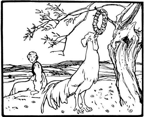 Illustration by Otto Ubbelohde to the fairy tale The Death of the Little Hen